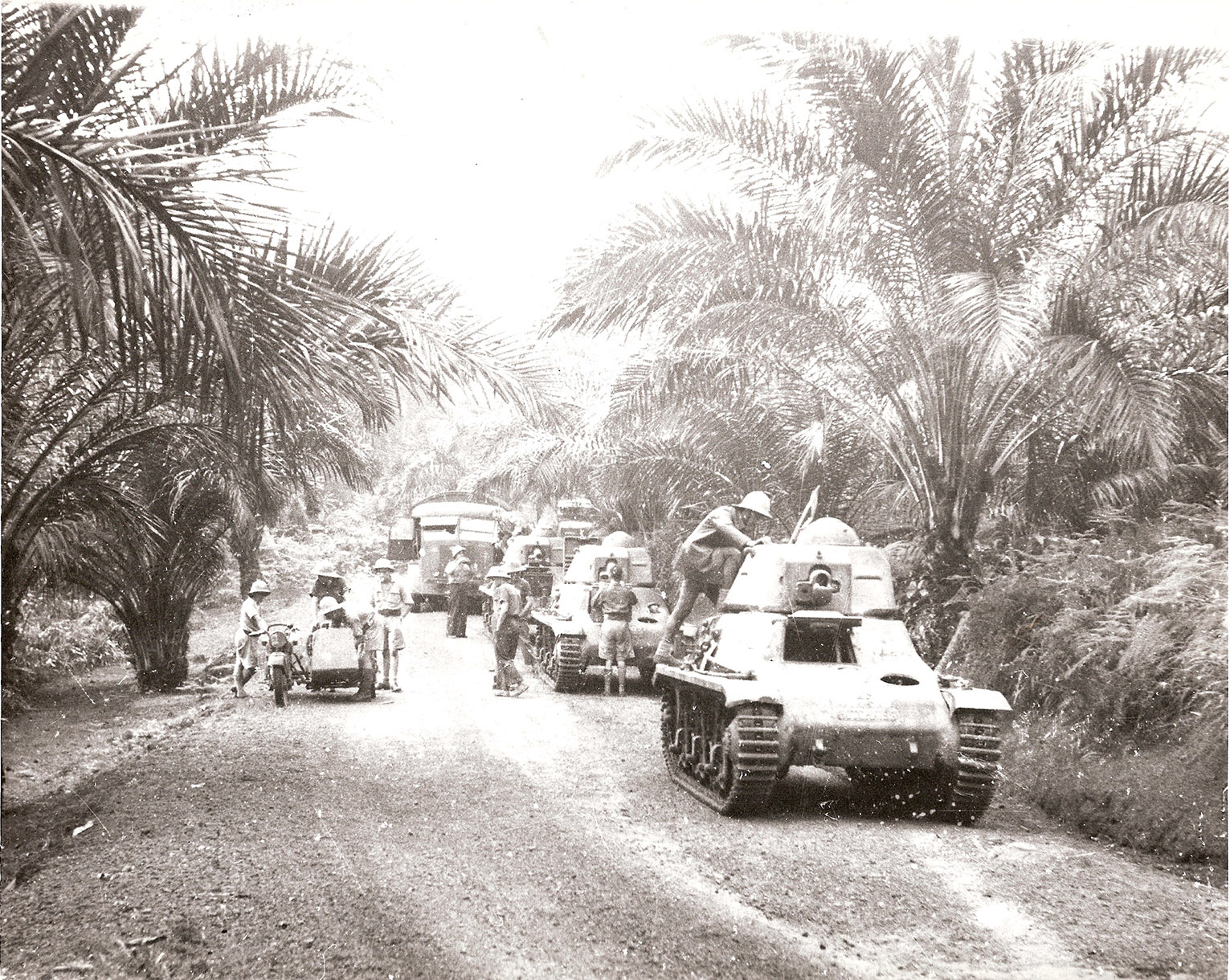 1e Compagnie de Chars de Combat de la France Libre during the Battle of Gabon